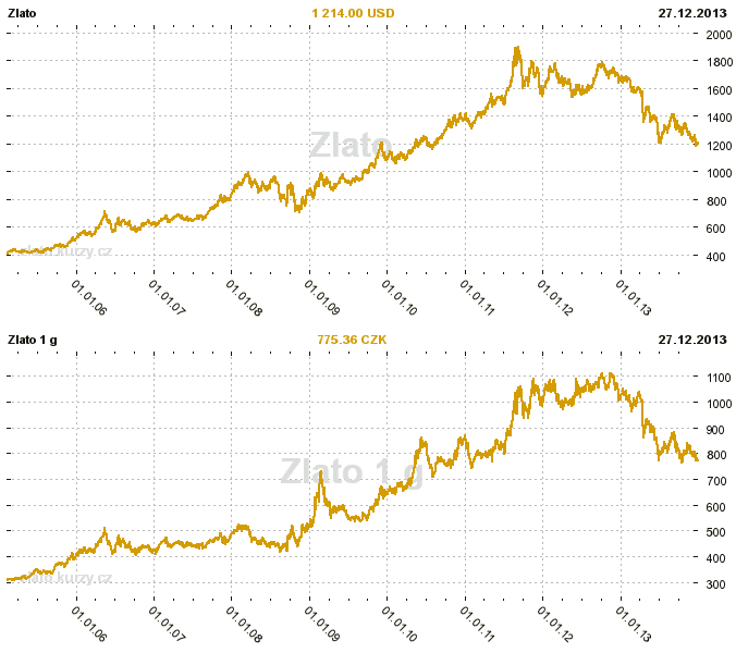 Gold price comparison - USD per oz and CZK per gram